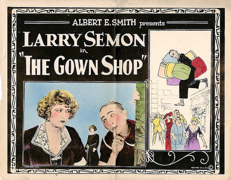 Lobby card for the American comedy short film The Gown Shop (1923) with Kathleen Myers and Larry Semon. Renewal searches were done in film and artwork for the years 1950 and 1951. There were no listings for the film's title. There were also no listings in artwork for Larry Semon, Vitagraph, Albert E. Smith or Wyanoak. There's no evidence of continuing copyright for the film and its related material.